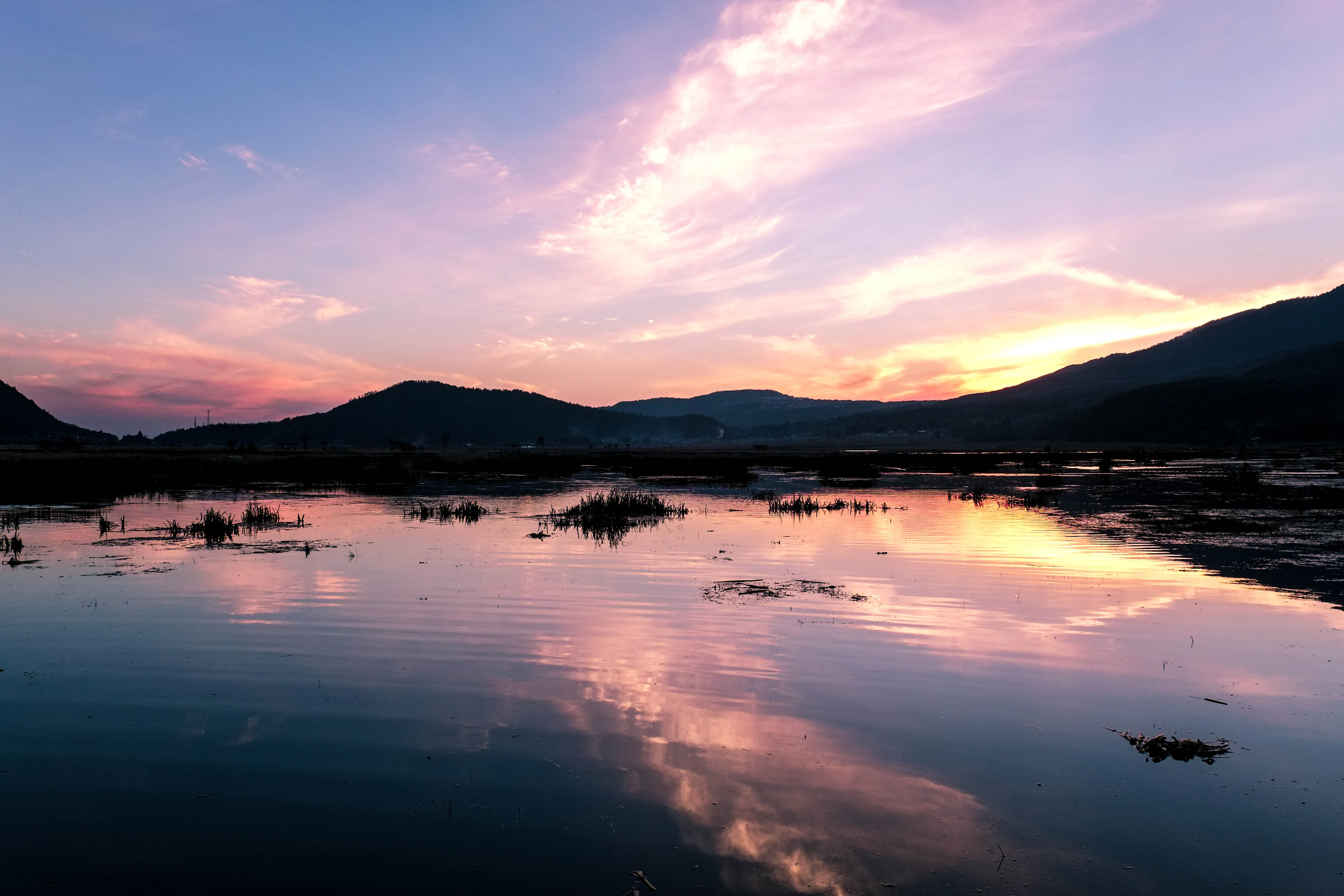 The sunset in Beihai Wetland, Tengchong, China